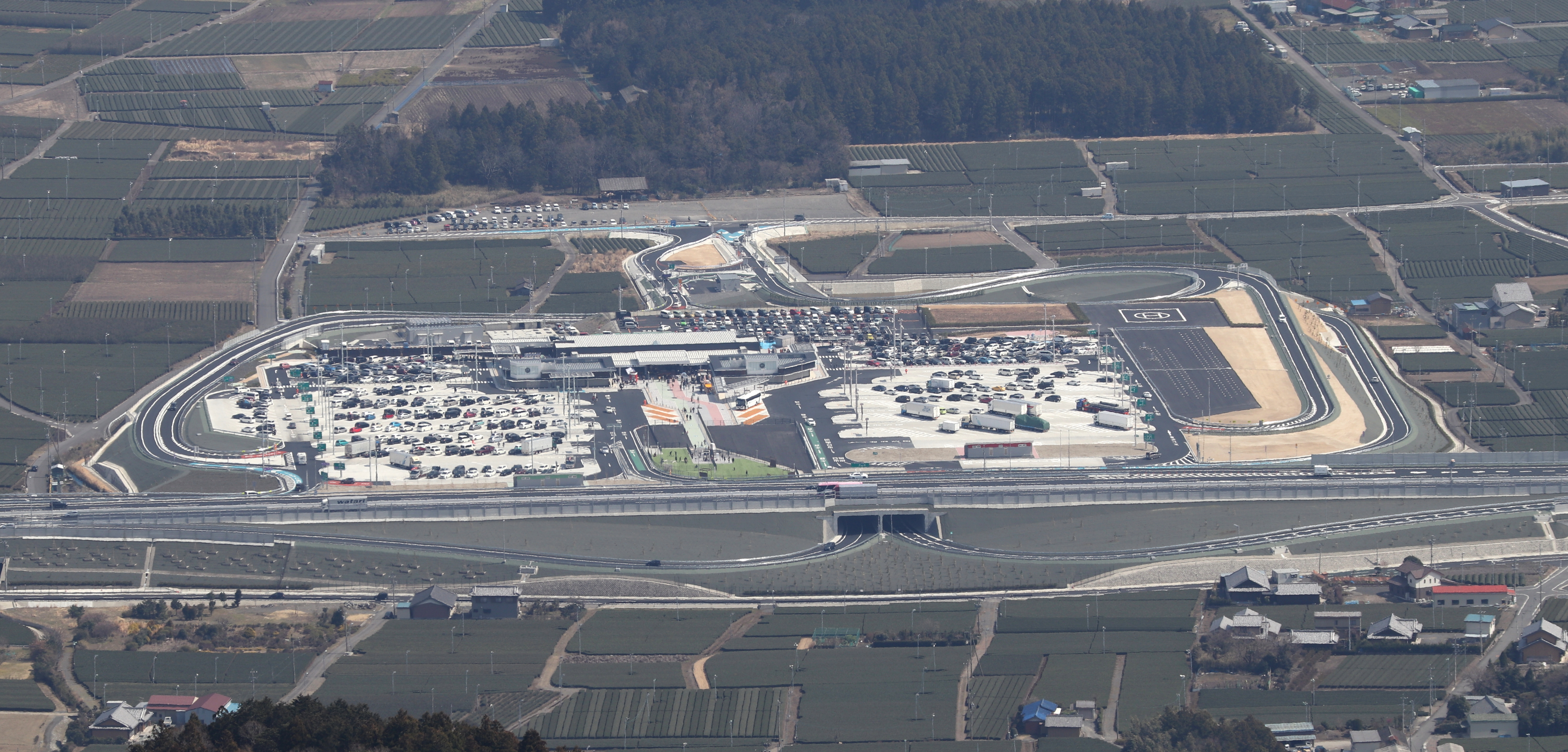 Suzuka Parking Area on Shin-Meishin Expressway seen from Mount Nyudo (Suzuka Mountains) in Suzuka, Mie Prefecture, Japan. Canon EOS Kiss X9